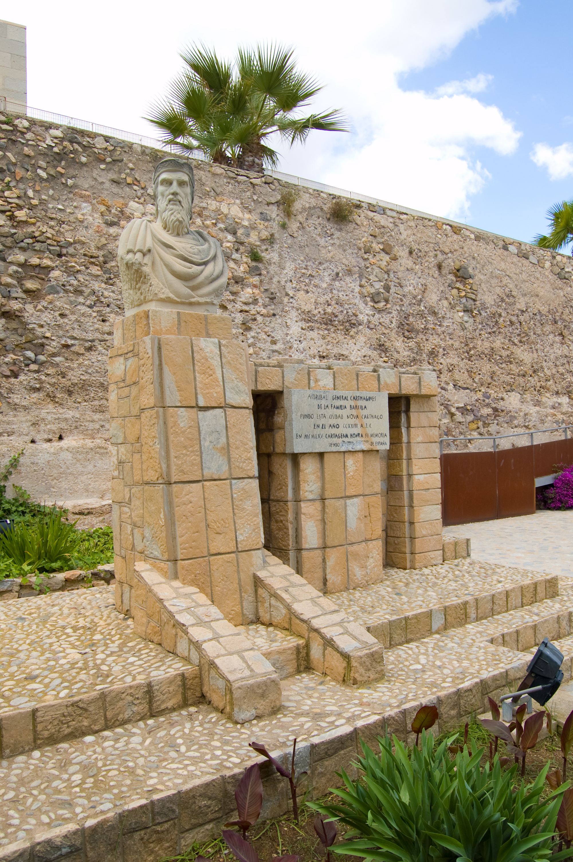 Bust dedicated to the Carthaginian general Hasdrubal the Fair in Cartagena (Spain), city that he founded in 227 BC.